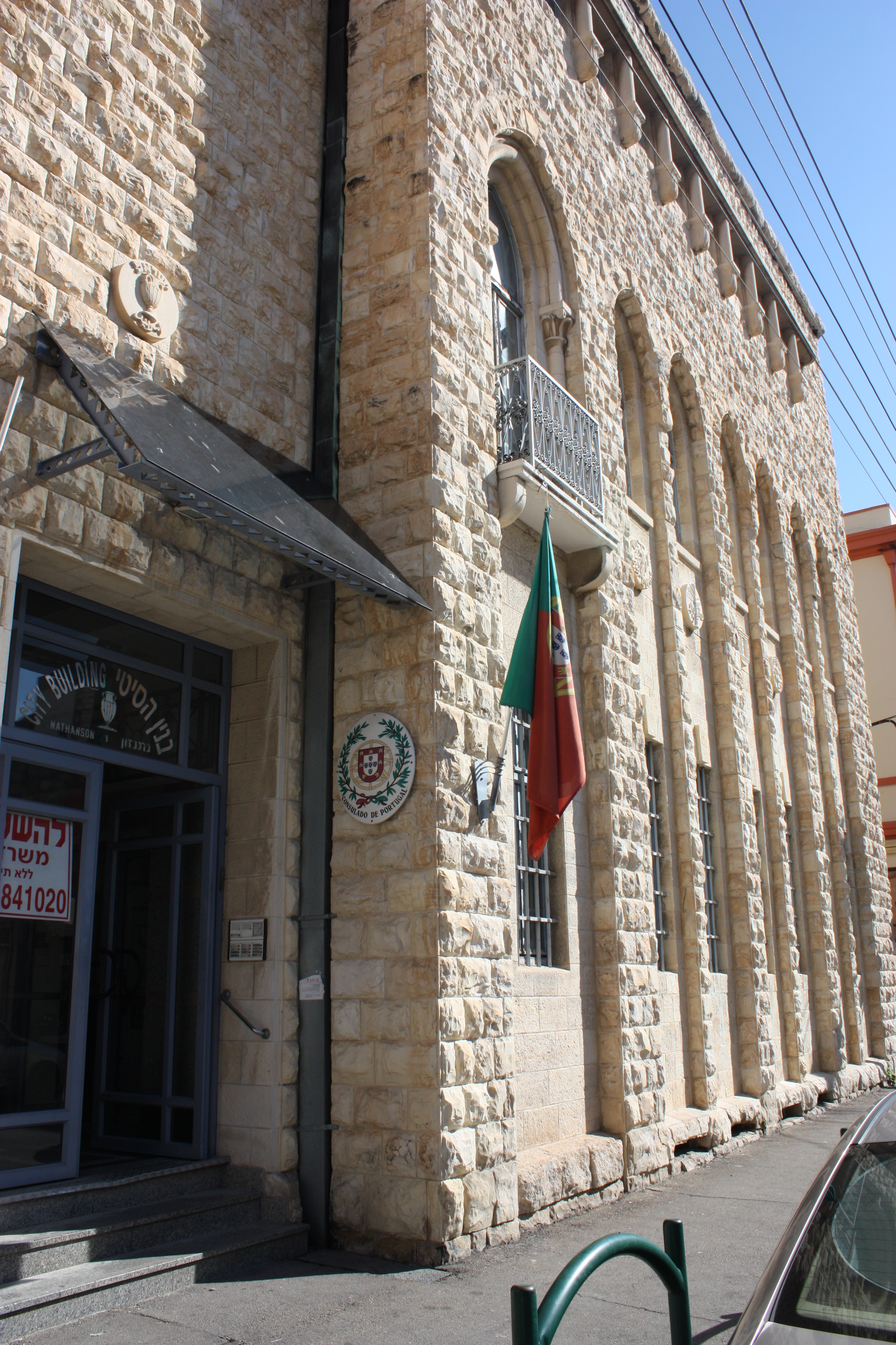 Portuguese consulate in Haifa, Israel.